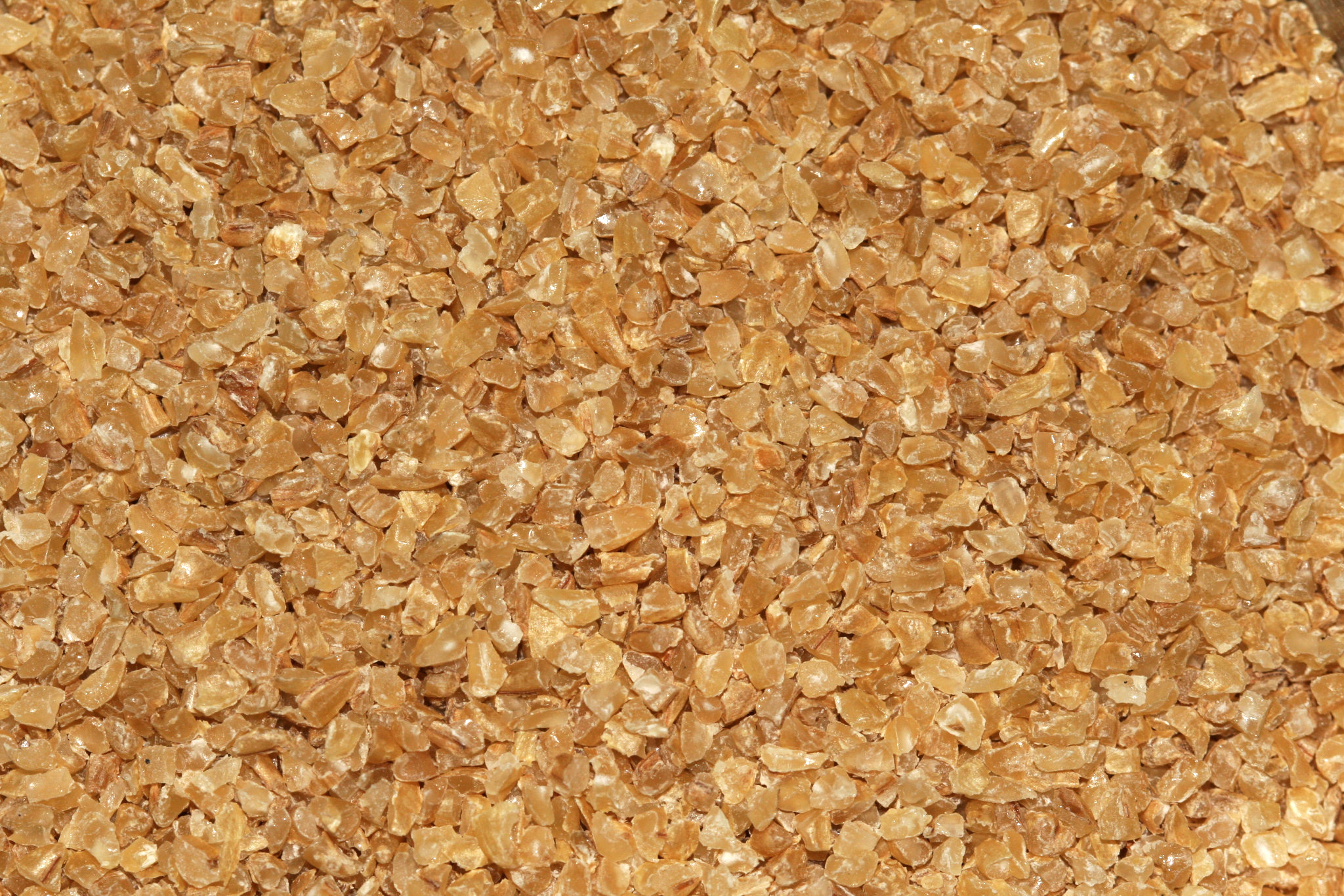 Cracked wheat